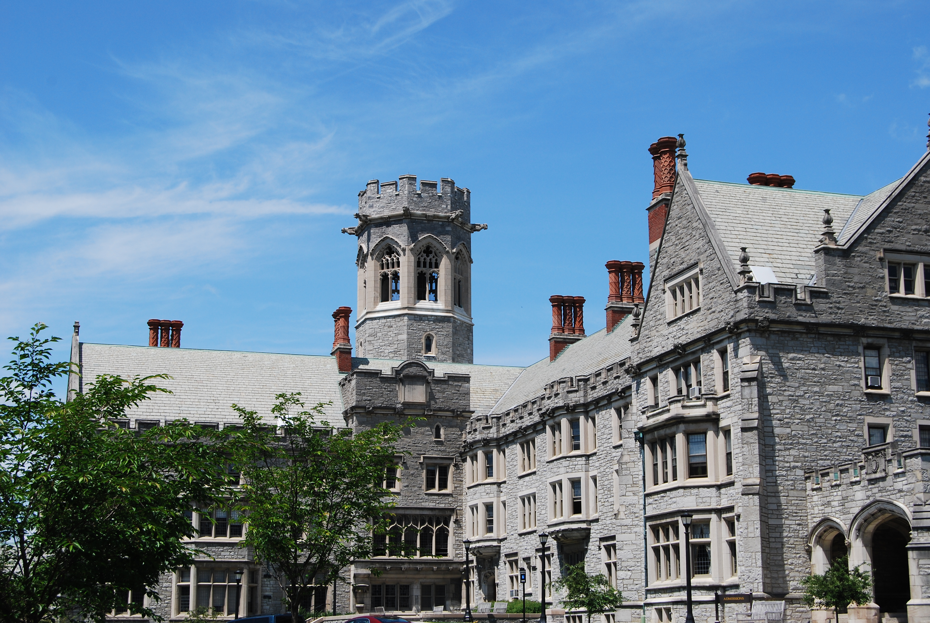 Emma Willard School, and all-girls boarding school located in Troy, New York, United States